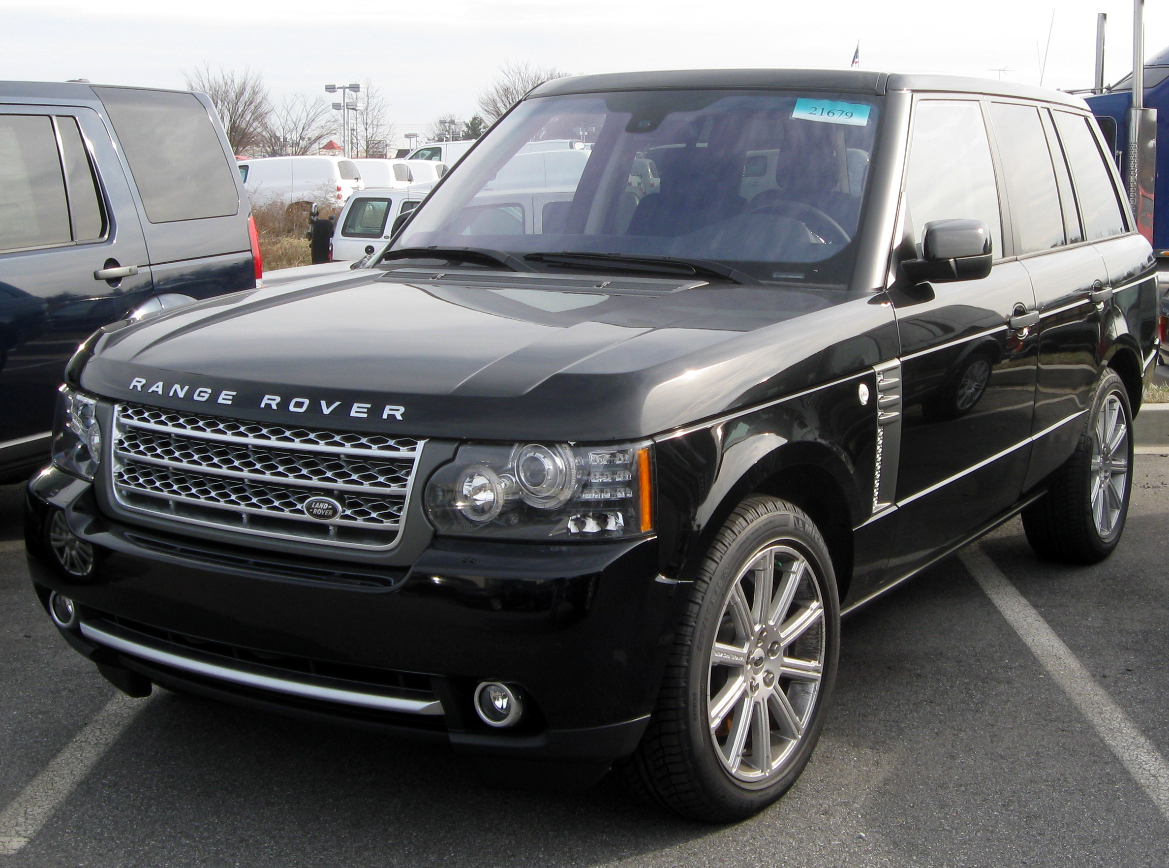 2011 Range Rover photographed in Clarksville, Maryland, USA.